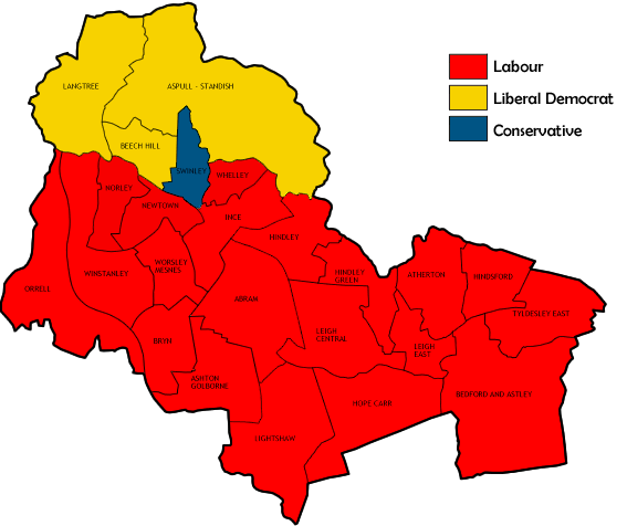 Wigan ward map with political colouring.